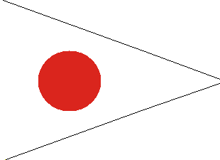 Union Army I Corps, 1st Division Badge, 1st Brigade